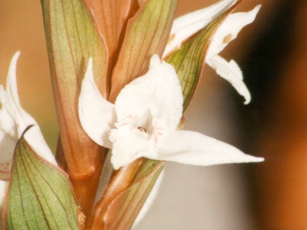 Pteroglossa roseoalba